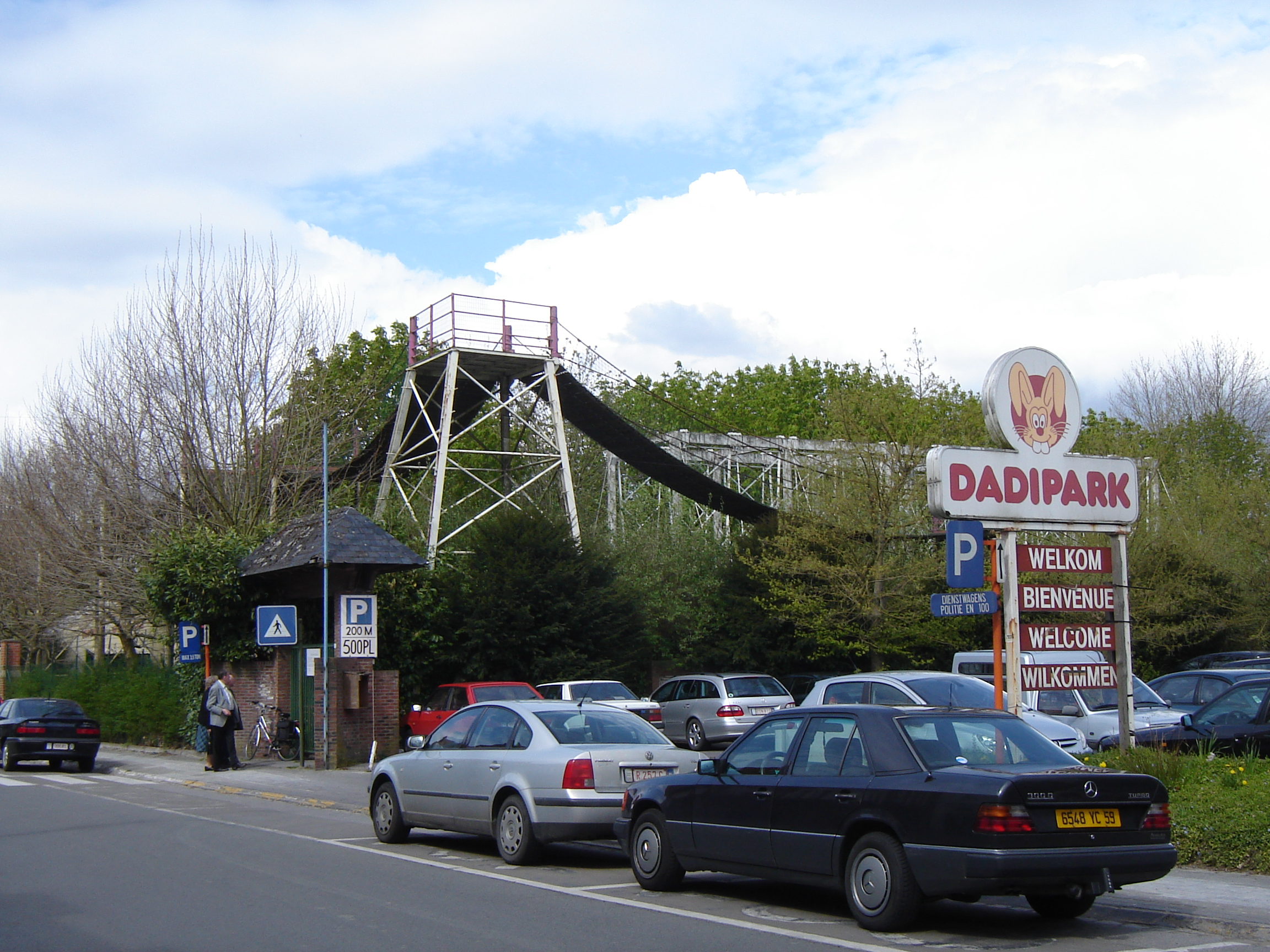 Derelict amusement park Dadipark in Dadizele. Dadizele, Moorslede, West Flanders, Belgium